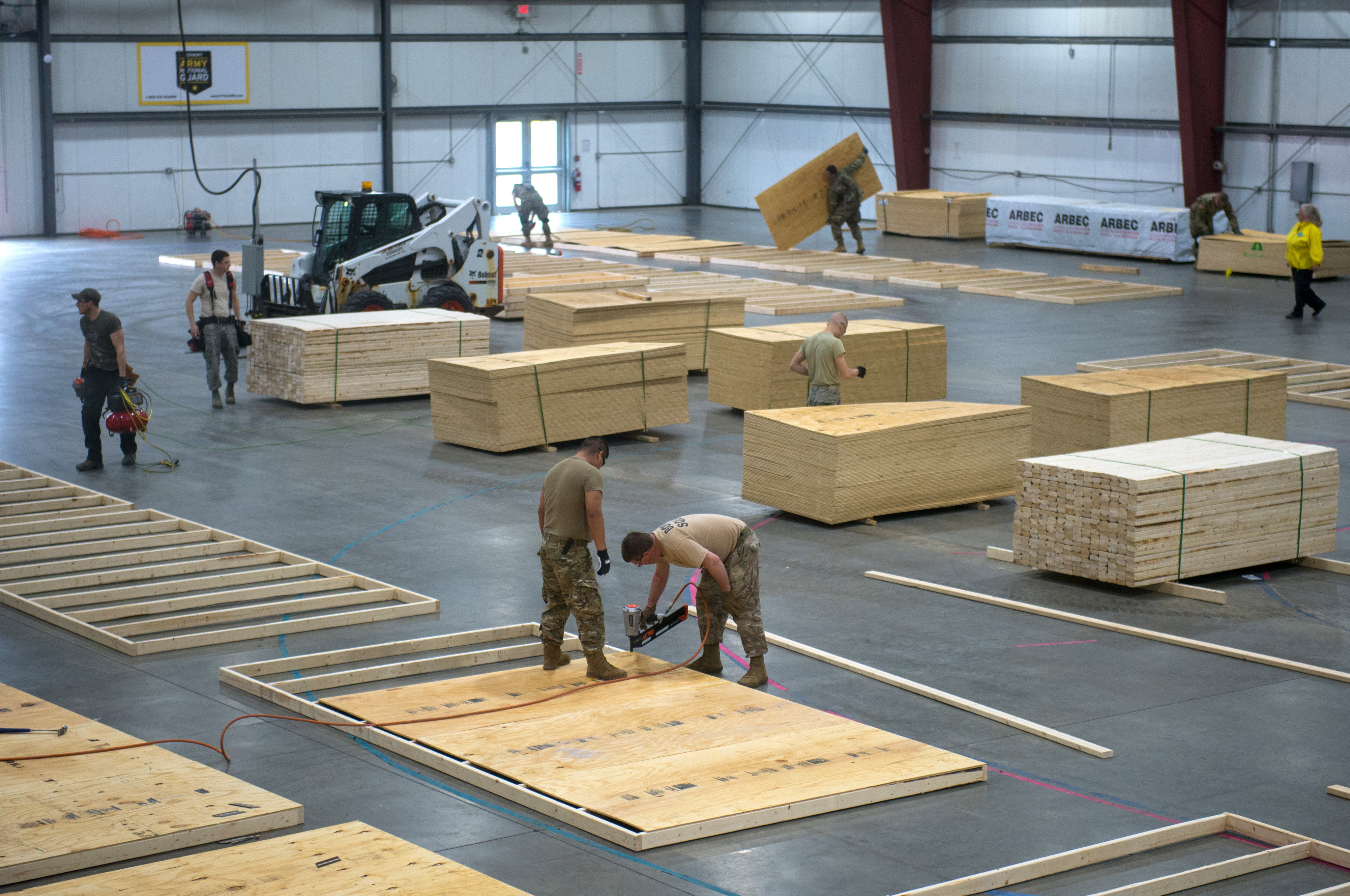 Airmen and soldiers from the Vermont National Guard work to construct a 400-bed medical surge facility at the Champlain Valley Exposition, Essex Junction, Vermont, April 04, 2020. The Vermont National Guard is working with the state of Vermont and emergency response partners in a whole-of-government effort to flatten the curve during the COVID-19 pandemic. (U.S. Air National Guard photo by Miss Julie M. Shea)